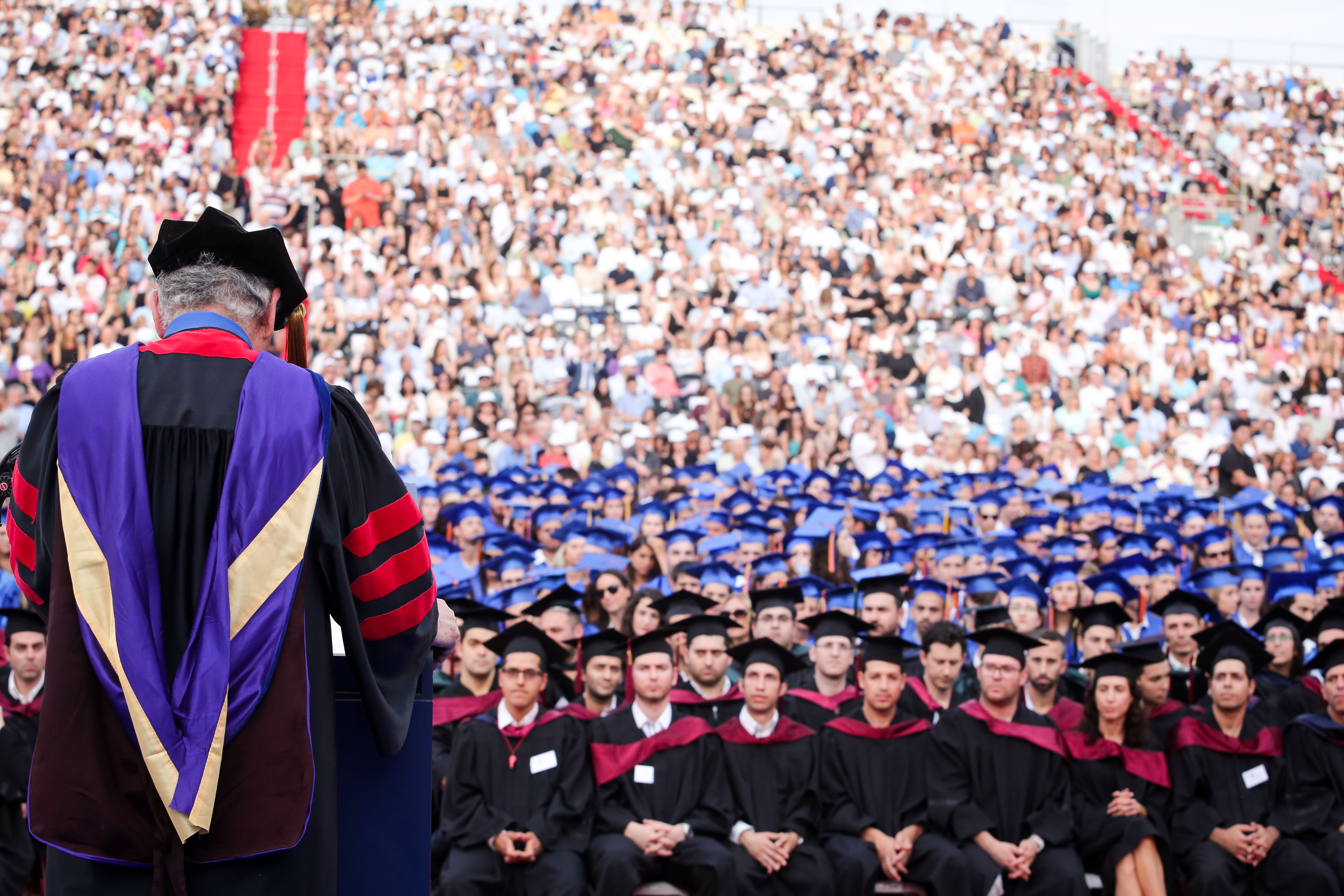 פרופ' אוריאל רייכמן מייסדו ונשיאו של המרכז הבינתחומי, בטקס הענקת תארים